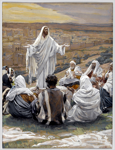 The Lord's Prayer (1886-1896) from the series The Life of Christ, Brooklyn Museum